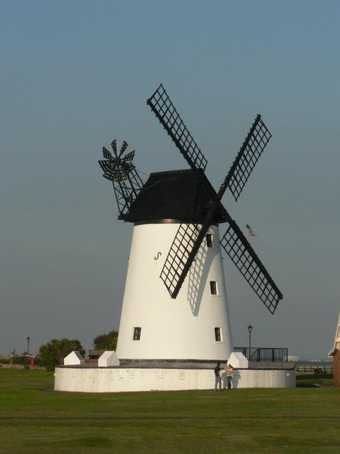 Lytham: the windmill The windmill is well maintained and it thus looks pristine on such an evening. Further info to come.